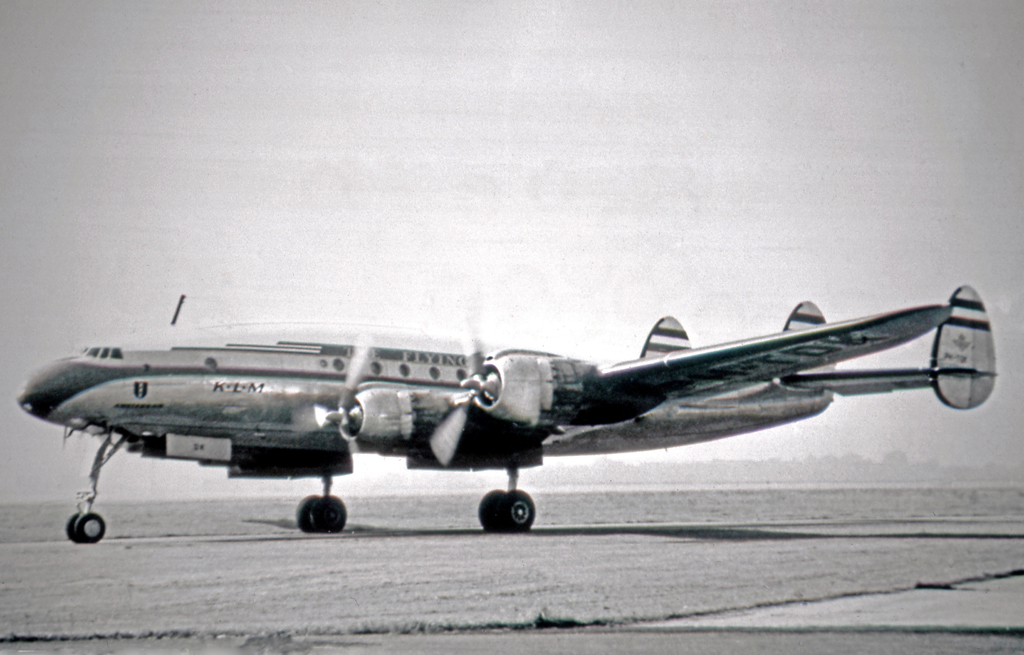 Lockheed L-749A Constellation PH-TDK of KLM Royal Dutch Airlines at Manchester Airport in 1953